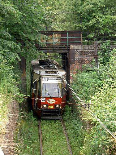 105Na car of line 18 squeezing through a narrow 'tunnel'. Line 18 is an interurban line on the Westside of the network.